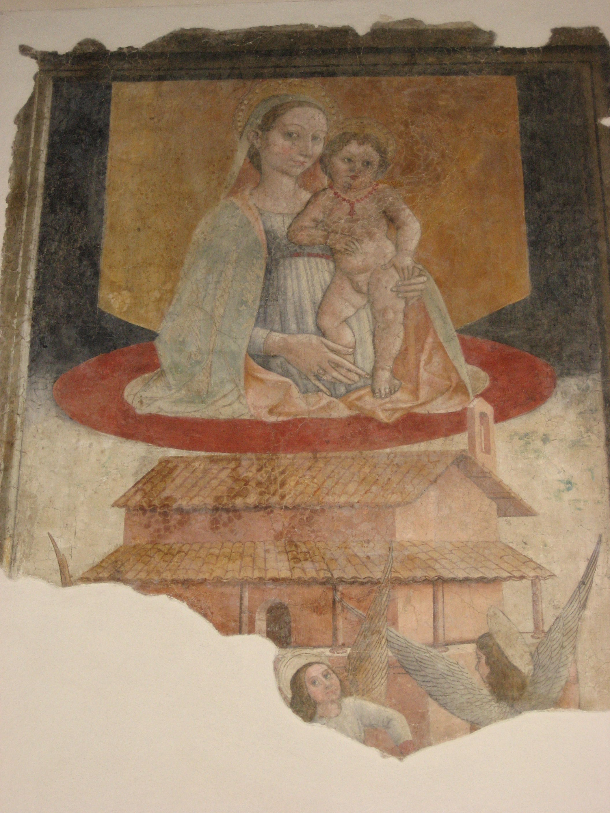 In the left aisle of the cathedral of Atri, next to the organ, this jewel is found fresco of Andrea De Litio, of which it constitutes one of the most important works. The fresco in matter represents the transport of the Saint House to Loreto (or Madonna of Loreto) and it constitutes one of it of the first examples. The Saint House is represented as it was visible to the epoch.